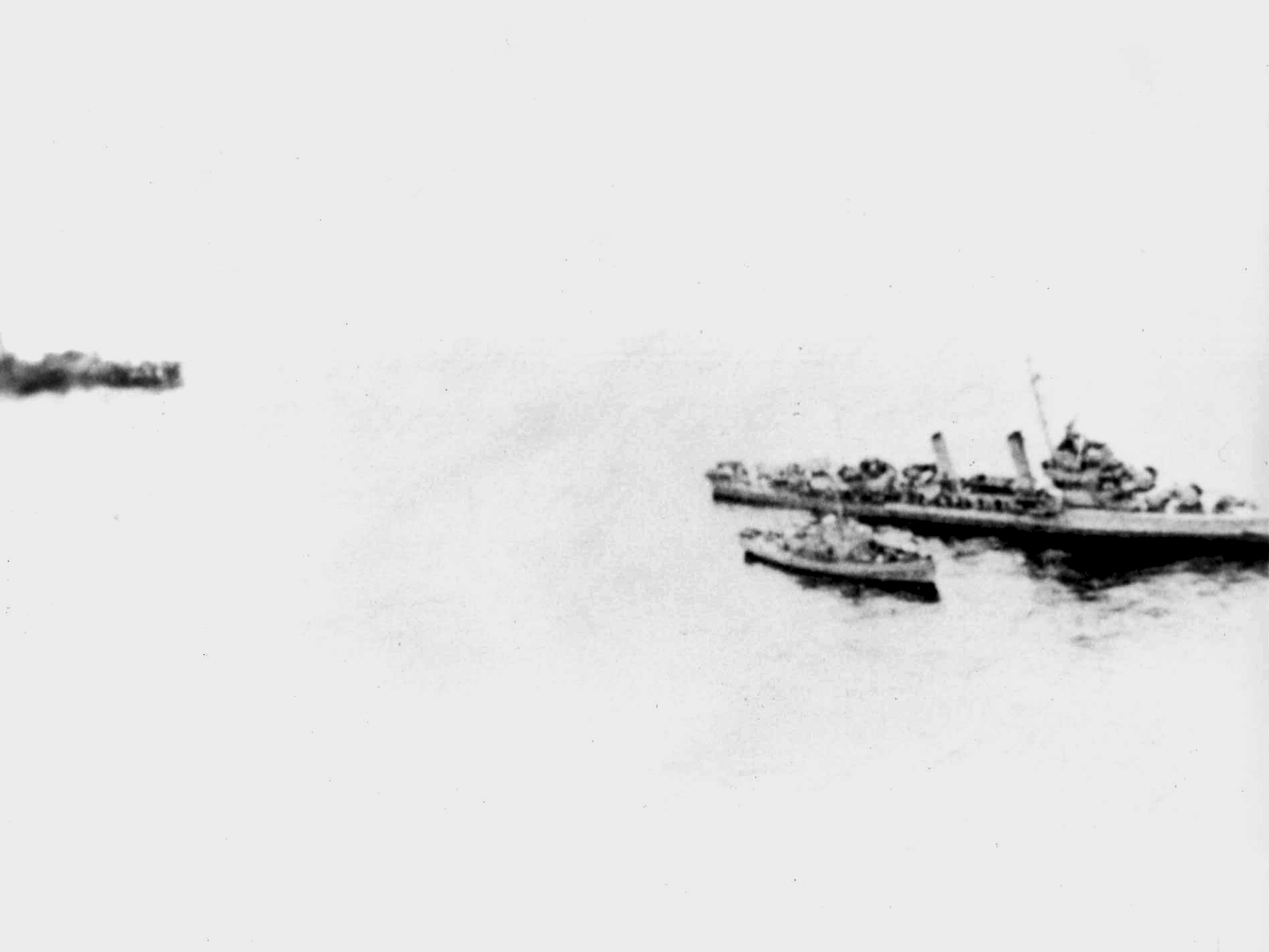 Aerial view of the U.S. Navy destroyer USS Turner (DD-648) after an internal explosion on board the ship off Sandy Hook, New Jersey (USA), on 3 January 1944. The first helicopter medical mercy mission in naval aviation history occurred when Commander Frank Erickson delivered blood plasma for survivors of the accident using a U.S. Coast Guard Sikorsky HNS-1 Hoverfly.